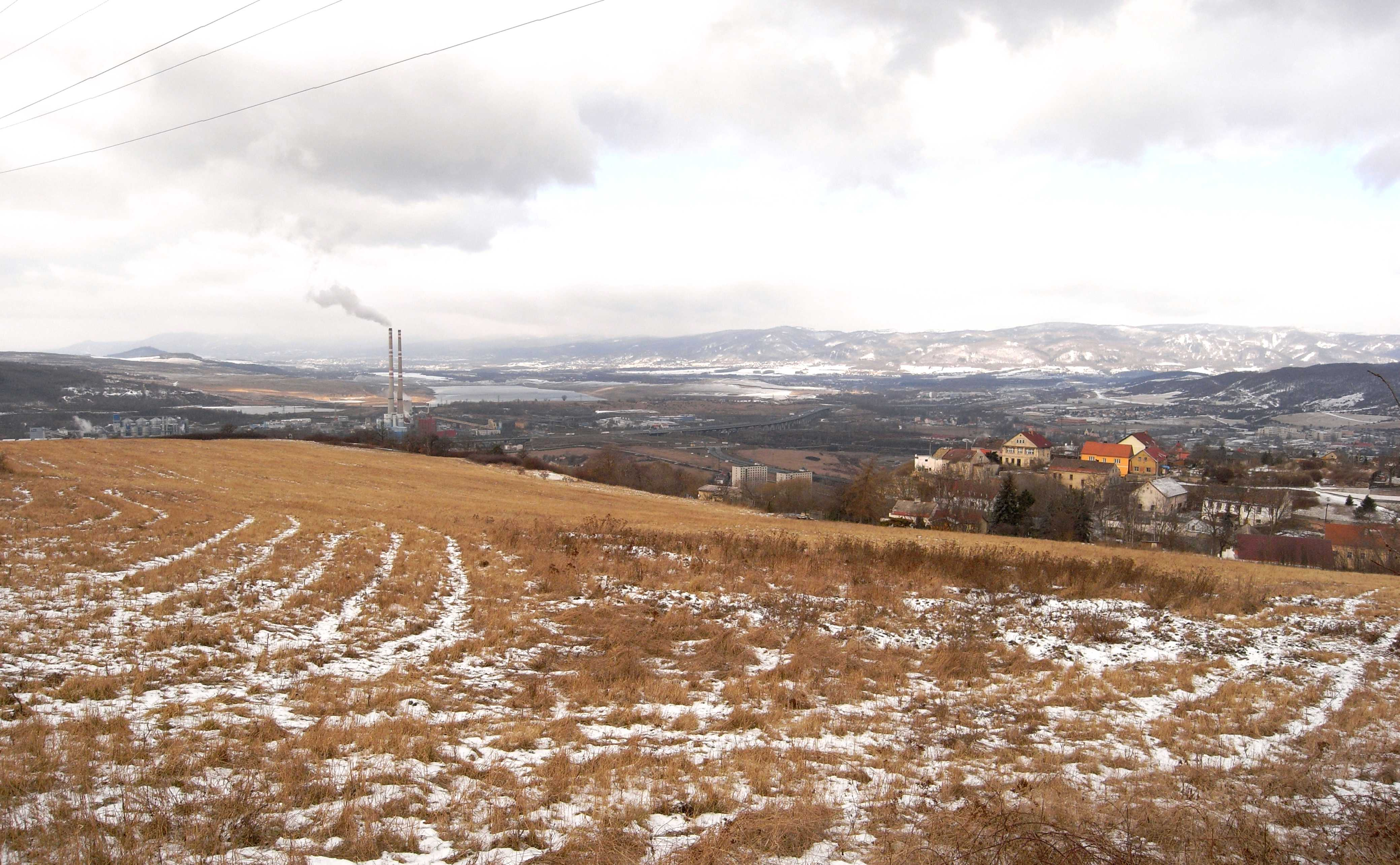 Northern bohemian basin near Ústí nad Labem, view of Teplice (Northern Bohemia, Czech Republic)